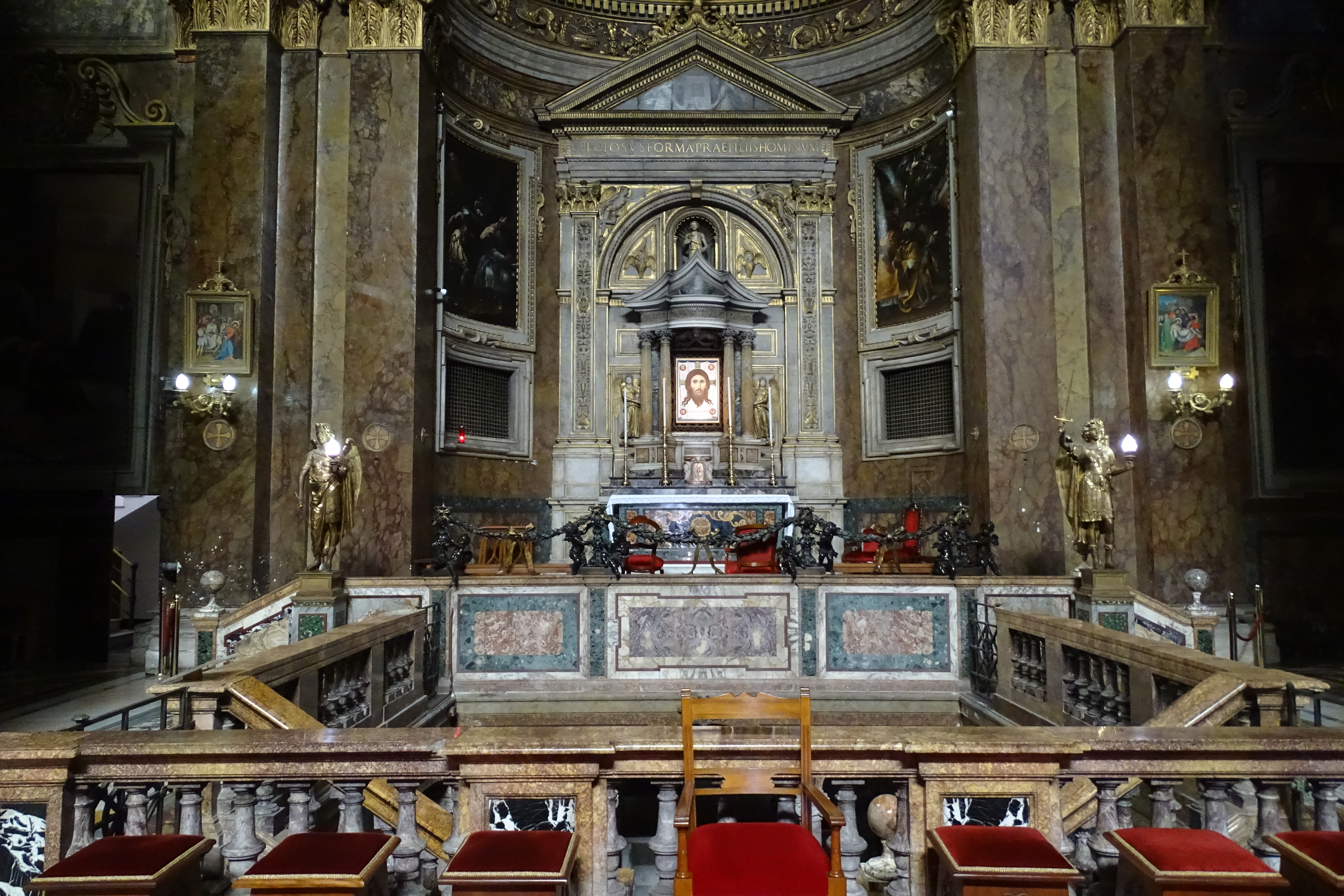 Church of St. Sylvester in Capite - Alter